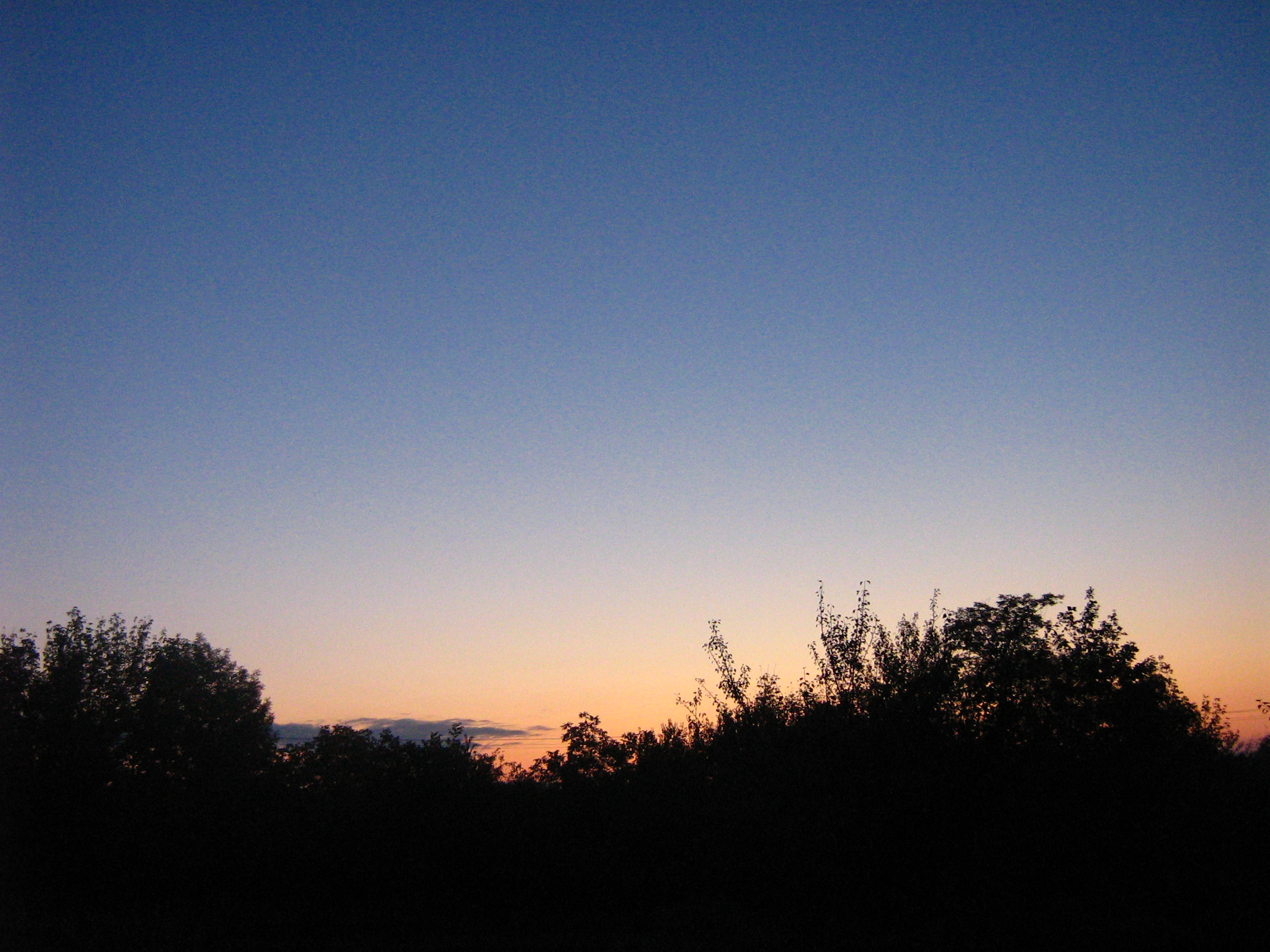 Sunrise in Kharkov Oblast, Ukraine.